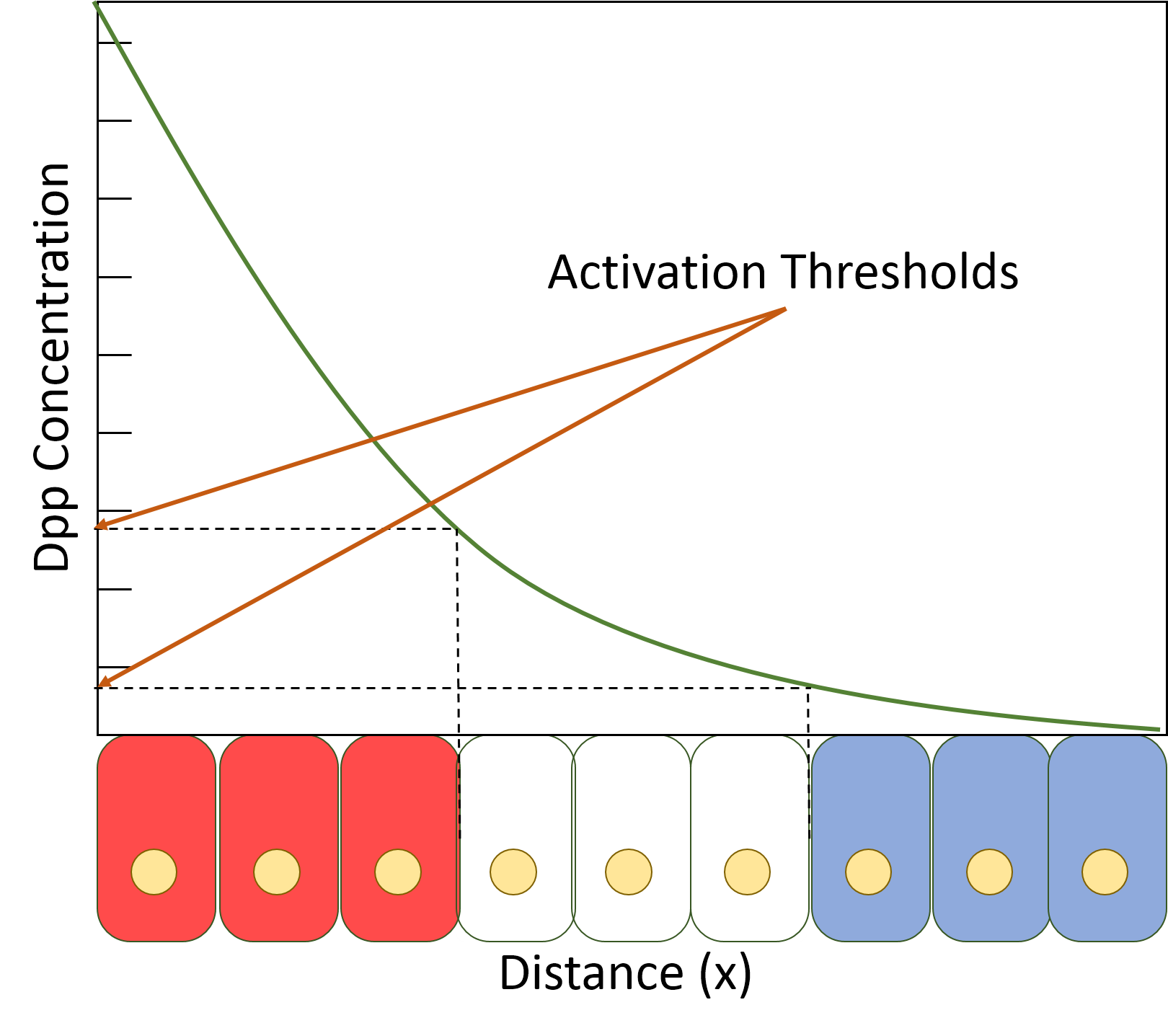 French flag model for Dpp morphogen gradient threshold concentrations